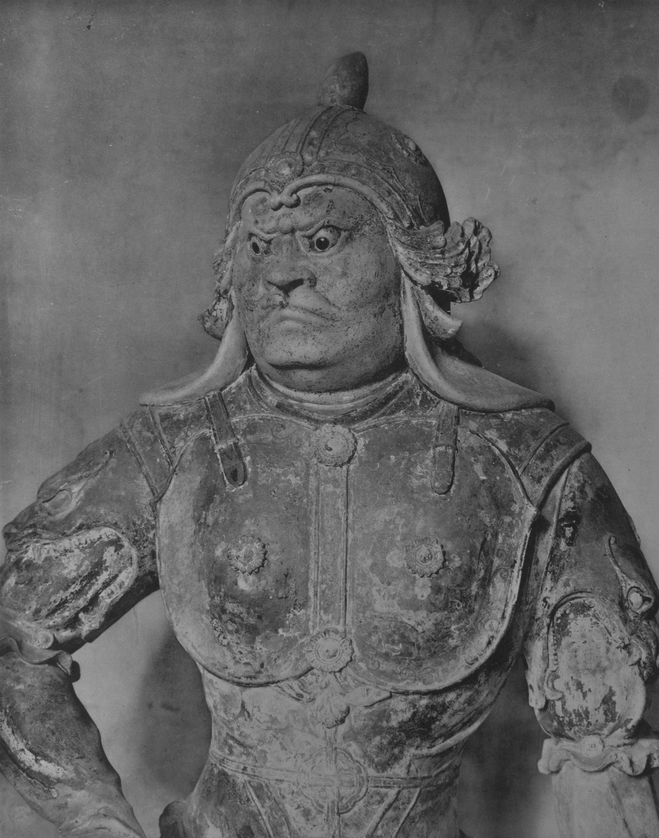 Todaiji, Nara, Japan